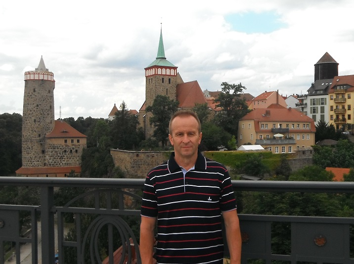 Dragan Djokanovic in Budysin